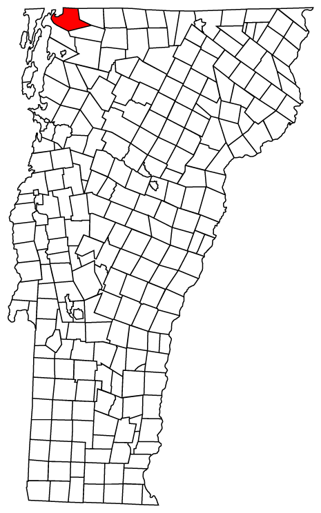 Map of Vermont towns with Highgate highlighted